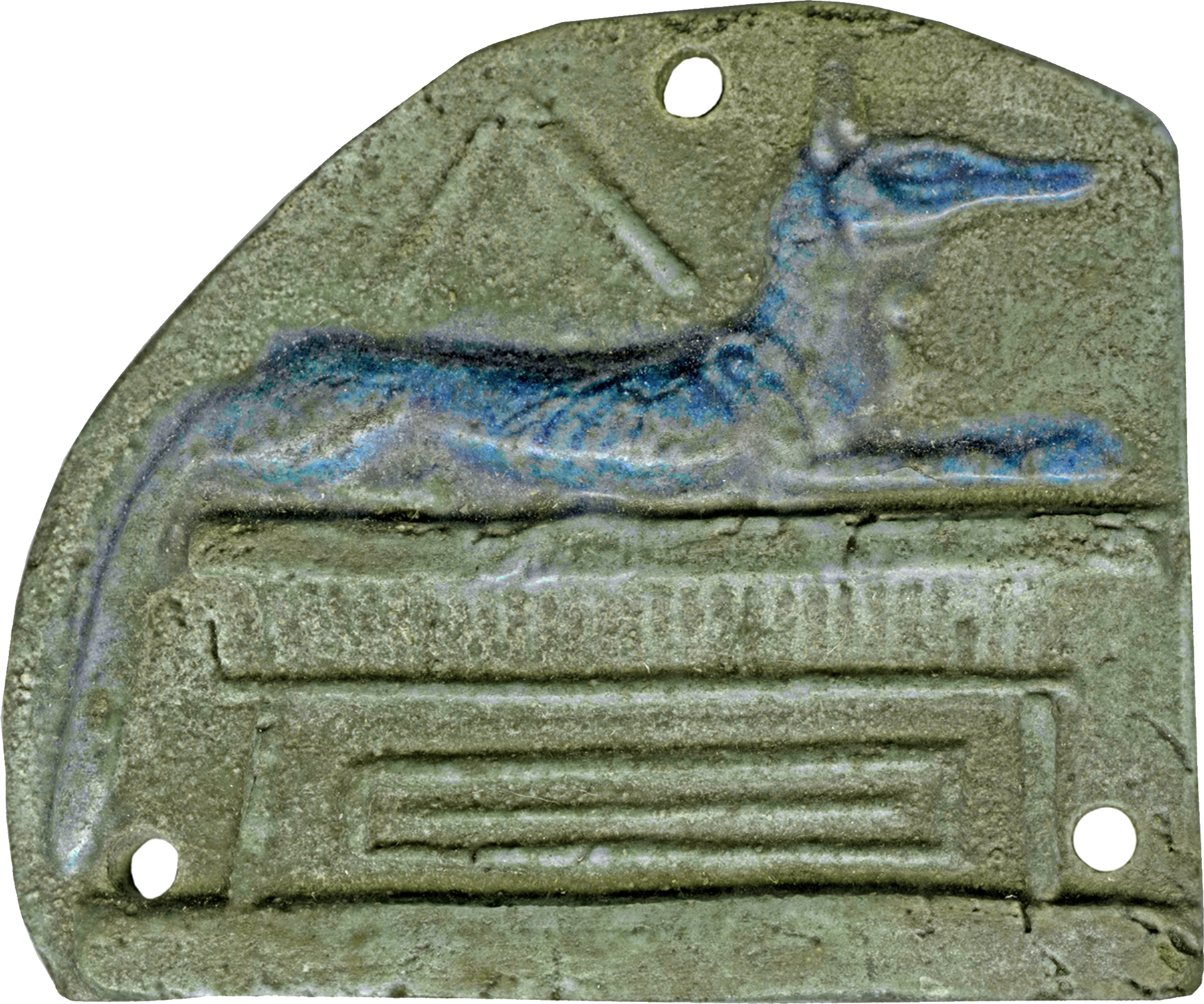 A faience, mold-made amulet in the form of a small plaque with the jackal god Anubis recumbent upon a pylon shaped chest/shrine. There is a flail over the back of the jackal. The jackal and the chest are in raised relief. The jackal faces to the right and this amulet is the mirror image of Walters 48.1634. The glaze is a pale green except for the jackal which is bright blue. The lower and left sides are squared but the other two are rounded, roughly outlining the shape of the jackal and the chest. Numerous funerary amulets were usually placed among the many layers of linen strips used to wrap mummies. Specific amulets, along with their required position on the body, are listed in funerary texts such as "The Book of the Dead." Amulets were sometimes sewn directly onto the wrappings or could be incorporated into a bead net shroud covering the mummy. This amulet has been modeled with a flat underside and is pierced by tiny holes around the edges for attachment.